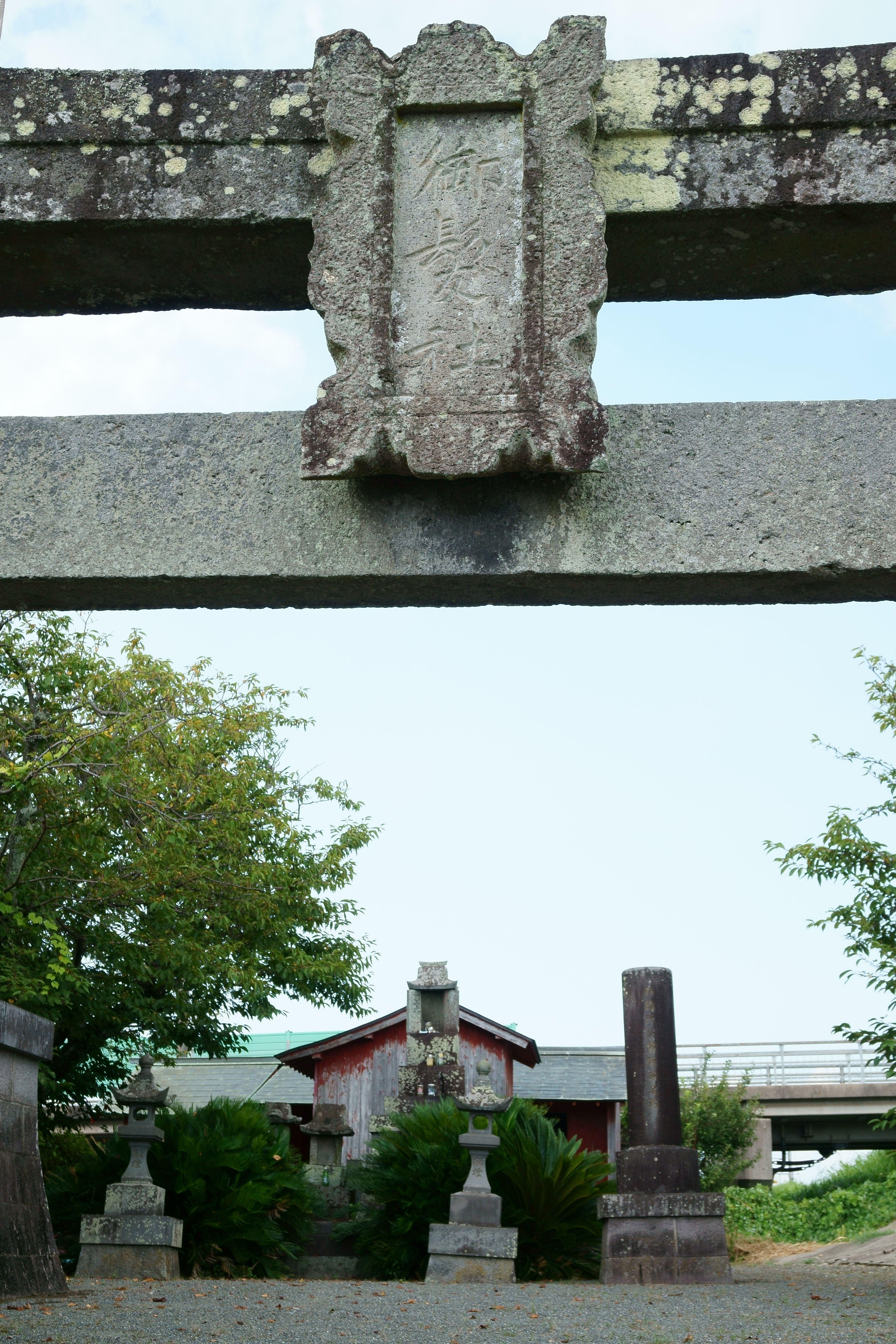 Ongansan Shrine in Hisadomi, Kubota, Saga city, Saga prefecture.